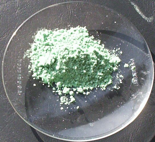 A sample of basic copper(II) carbonate. Picture taken by User:Walkerma, March 2006.